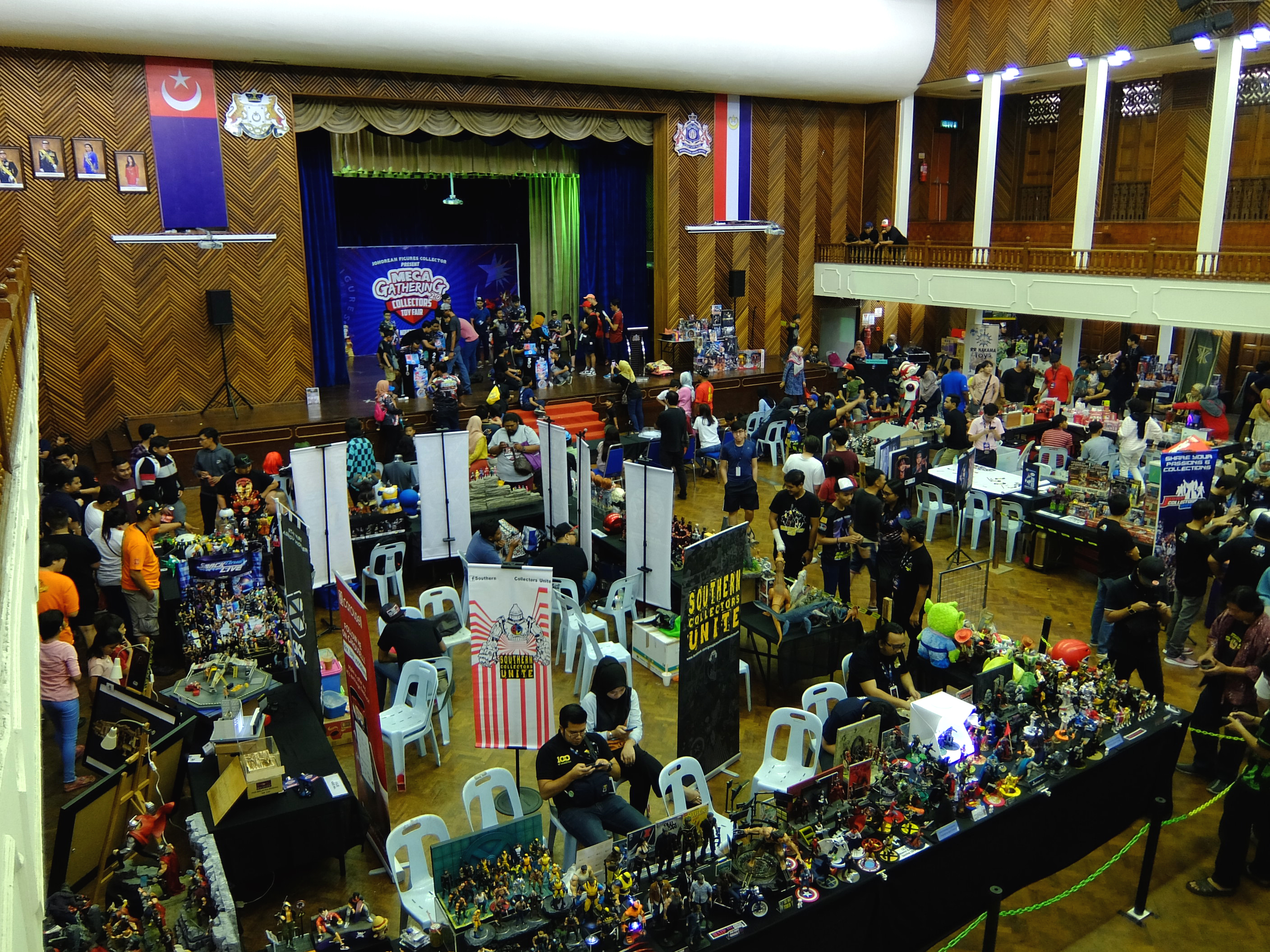 Mega Gathering 2.0 and Johor Collectors Toy Fair 2019 @ Diamond Jubilee Hall, Johor Bahru, Johor, Malaysia